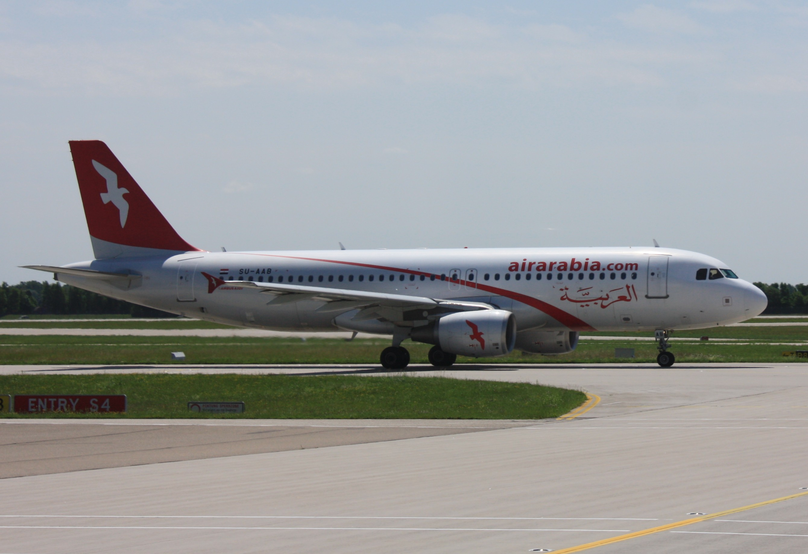 SU-AAB Air Arabia A320 at Munich Airport